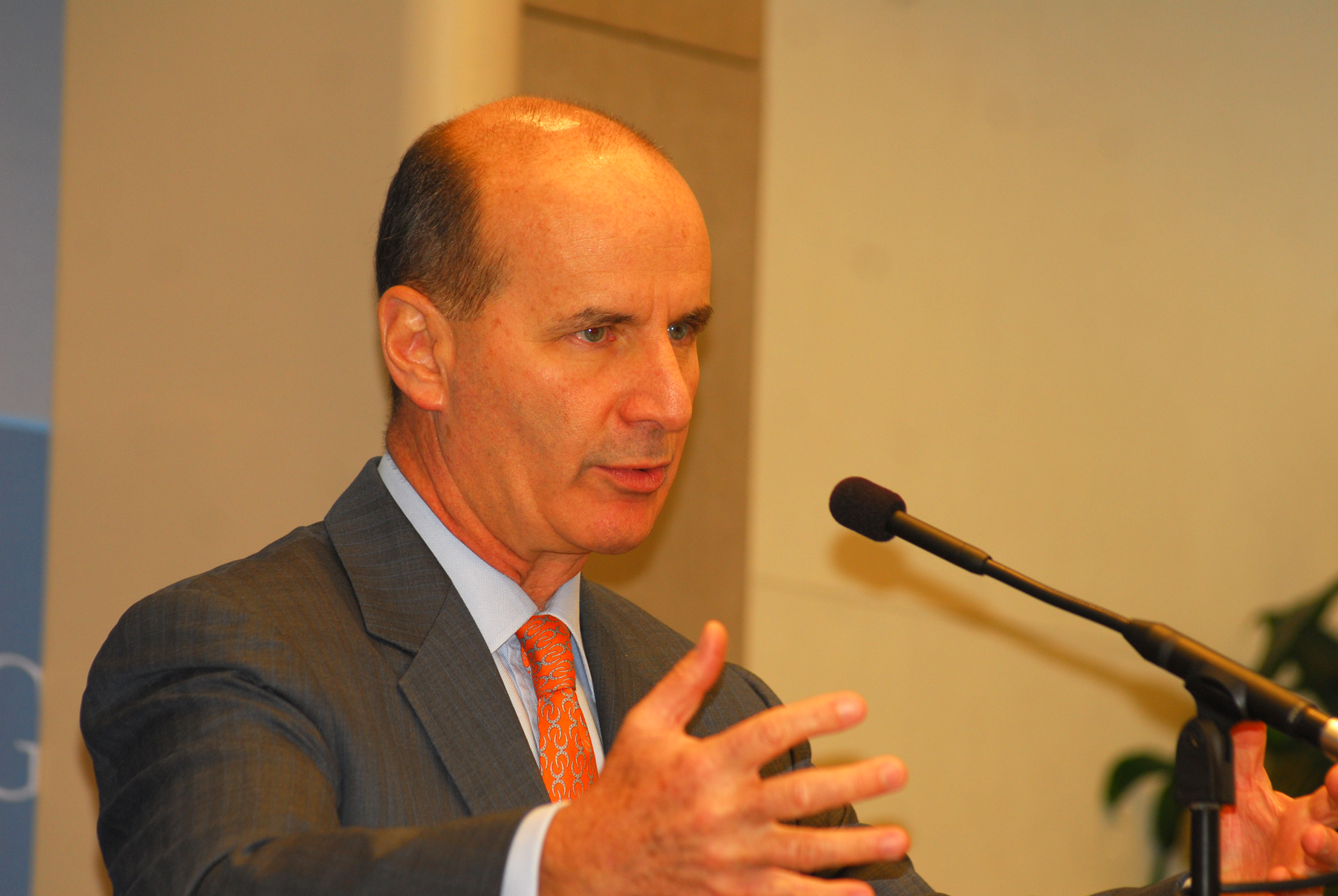 José María Figueres, former President of Costa Rica